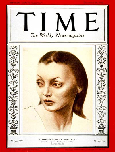 Time magazine, Volume 20 Issue 26. Front cover is an illustration of Katharine Cornell.